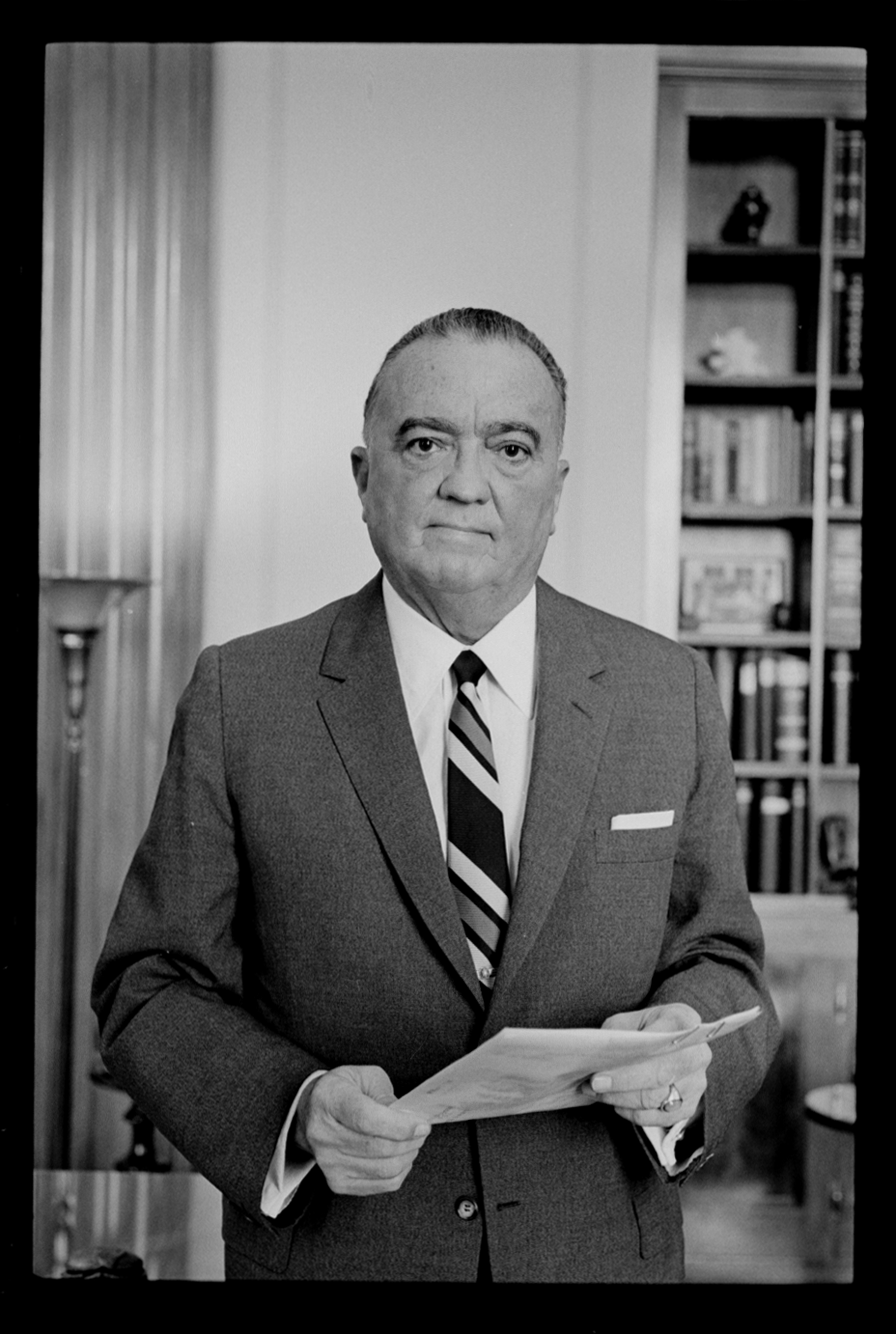 J. Edgar Hoover holding papers in his hand.